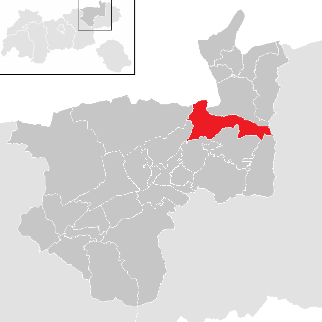 District Kufstein